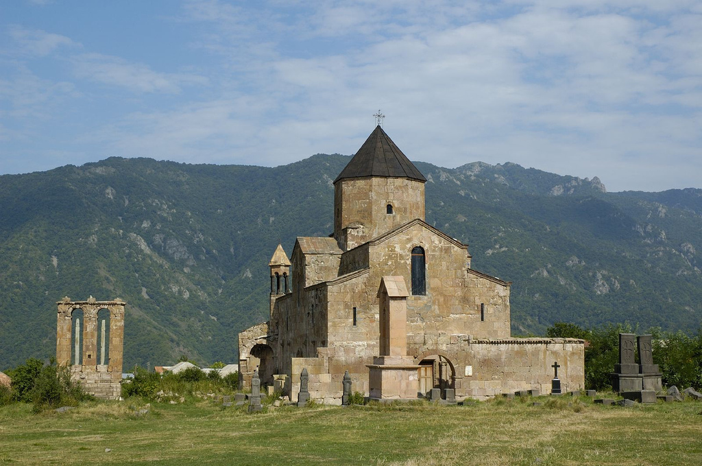 Odzoun basilica, Northern Armenia.